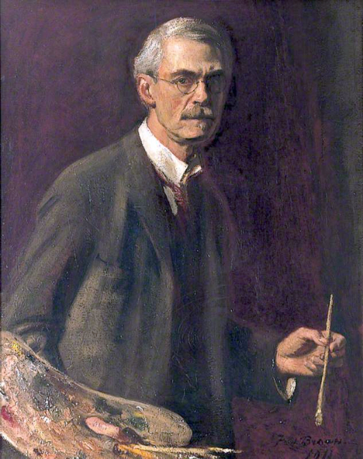 Self portrait oil on canvas 91.4 x 72.4 cm signed b.r.: Fred. Brown / 1911